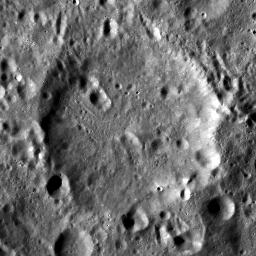 Crater Subbotin on the Moon, in highland region on the far side. Mosaic of photos by Lunar Reconnaissance Orbiter, made with Wide Angle Camera. Size of the image is 100×100 km, north is approximately up.